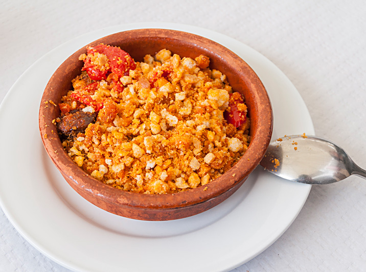 Migas. Gastronomía típica. Ciudad de Cáceres. Extremadura. España.